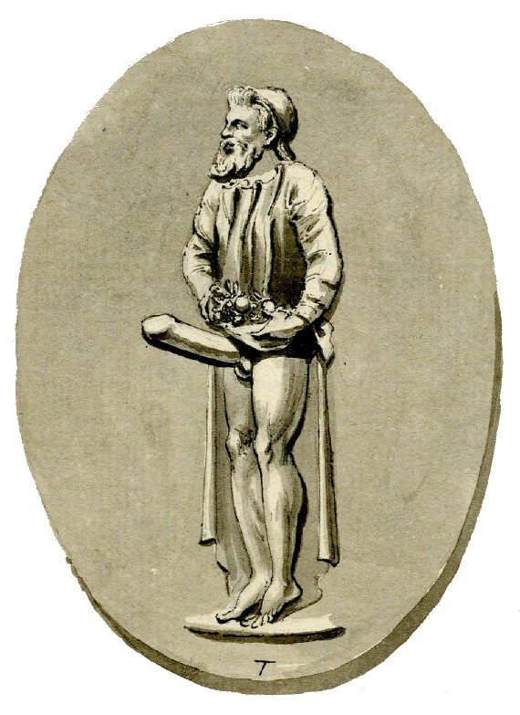 Gem engraved with Priapos raising his drapery with both hands (BM Cat. Gem 1652). Pen and ink with grey wash on a sheet of paper, which is stuck down onto a second sheet watermarked '1794 J WHATMAN' together with 2010,5006.885 and 887; the assemblage framed in a brown ink border.